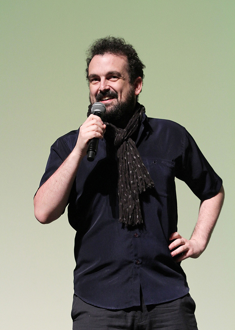 Director Nacho Vigalondo at the 2014 Miami International Film Festival presentation of the film Open Windows Photo by: Alberto Tamargo